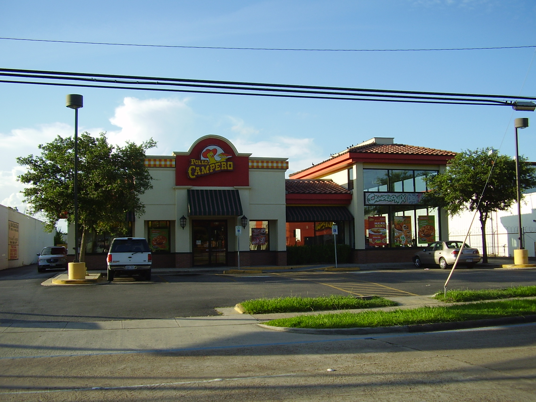 Pollo Campero Bellaire, a Pollo Campero restaurant in Gulfton, Houston - 5616 Bellaire Blvd., Houston, TX 77081